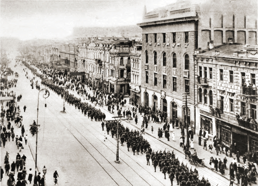 Polish Army in Kiev 1920. Army parade on Khreshchatyk Street, 9th of May 1920